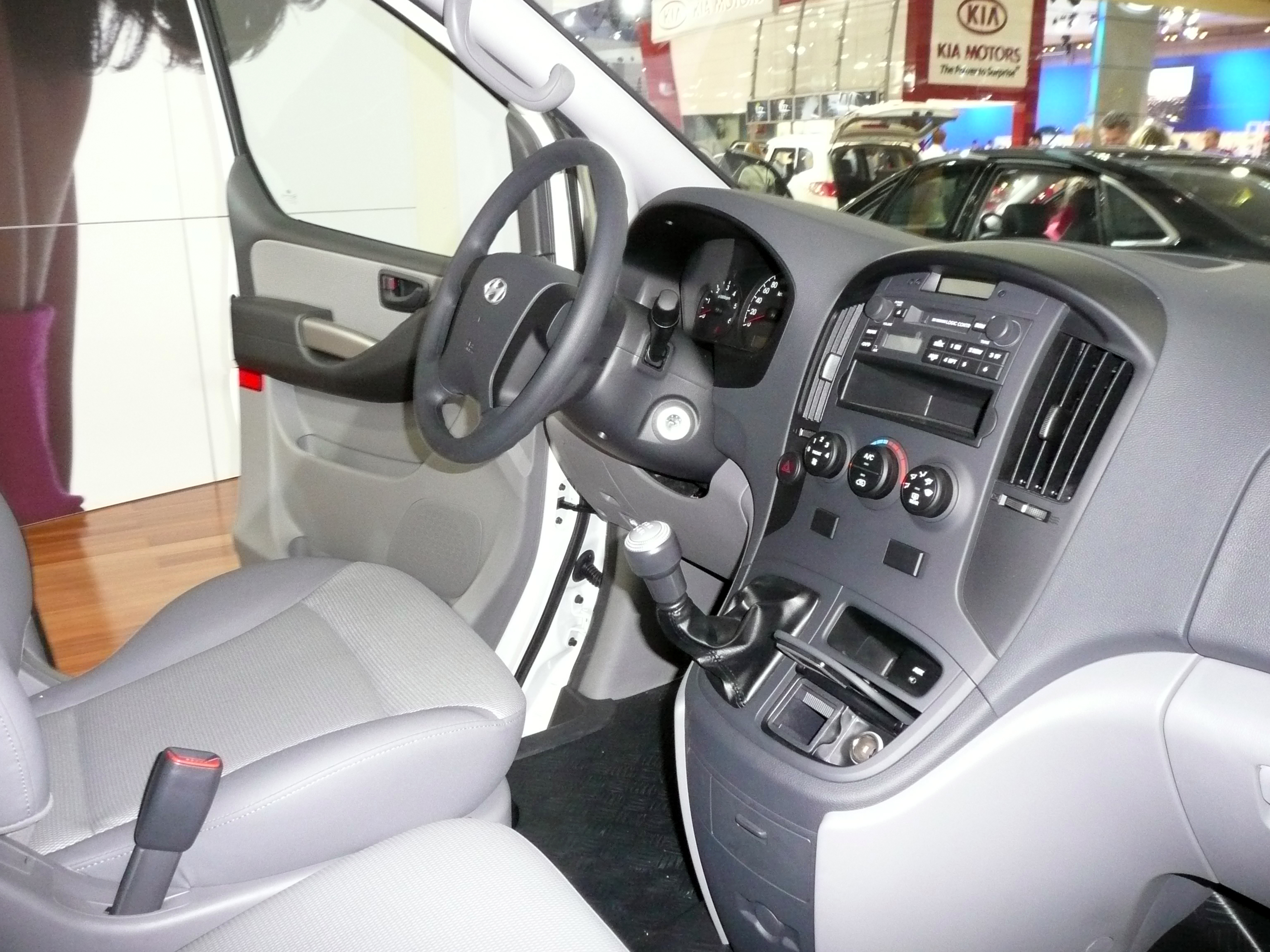 2007 Hyundai H-1 (TQ-V) van. Photographed at the 2007 Australian International Motor Show, Sydney, New South Wales, Australia.